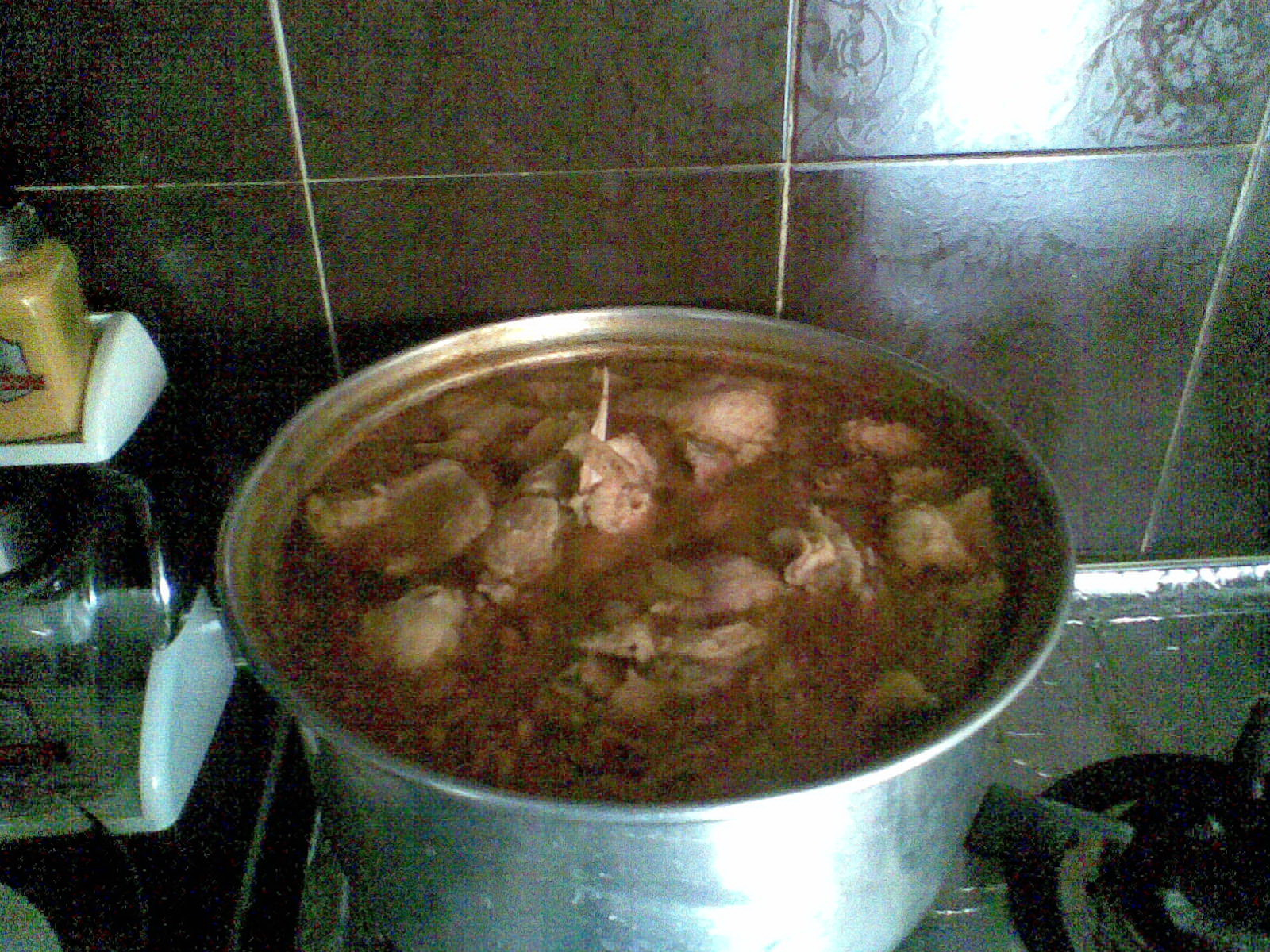 Abgoosht is cooking on oven, Iran